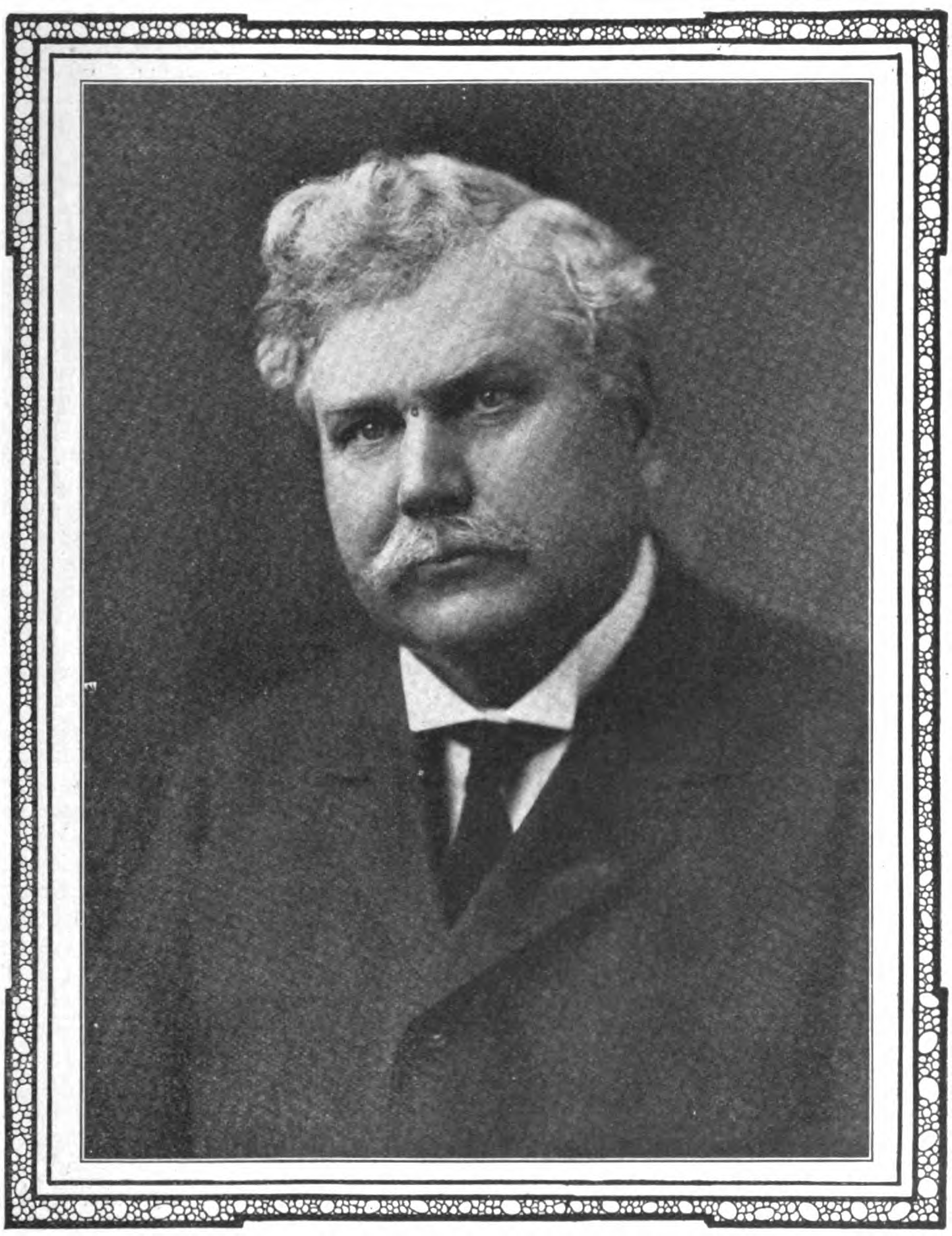 Samuel Hill, road builder